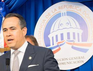 Federico Alberto Cuello Camilo, Dominican Ambassador to the United Kingdom, giving the closing remarks at a press conference with the Rt Hon Hugo Swire, MP, British Minister of State for Asia, the Commonwealth and Latin America - Santo Domingo, Dominican Republic, 11 June 2013